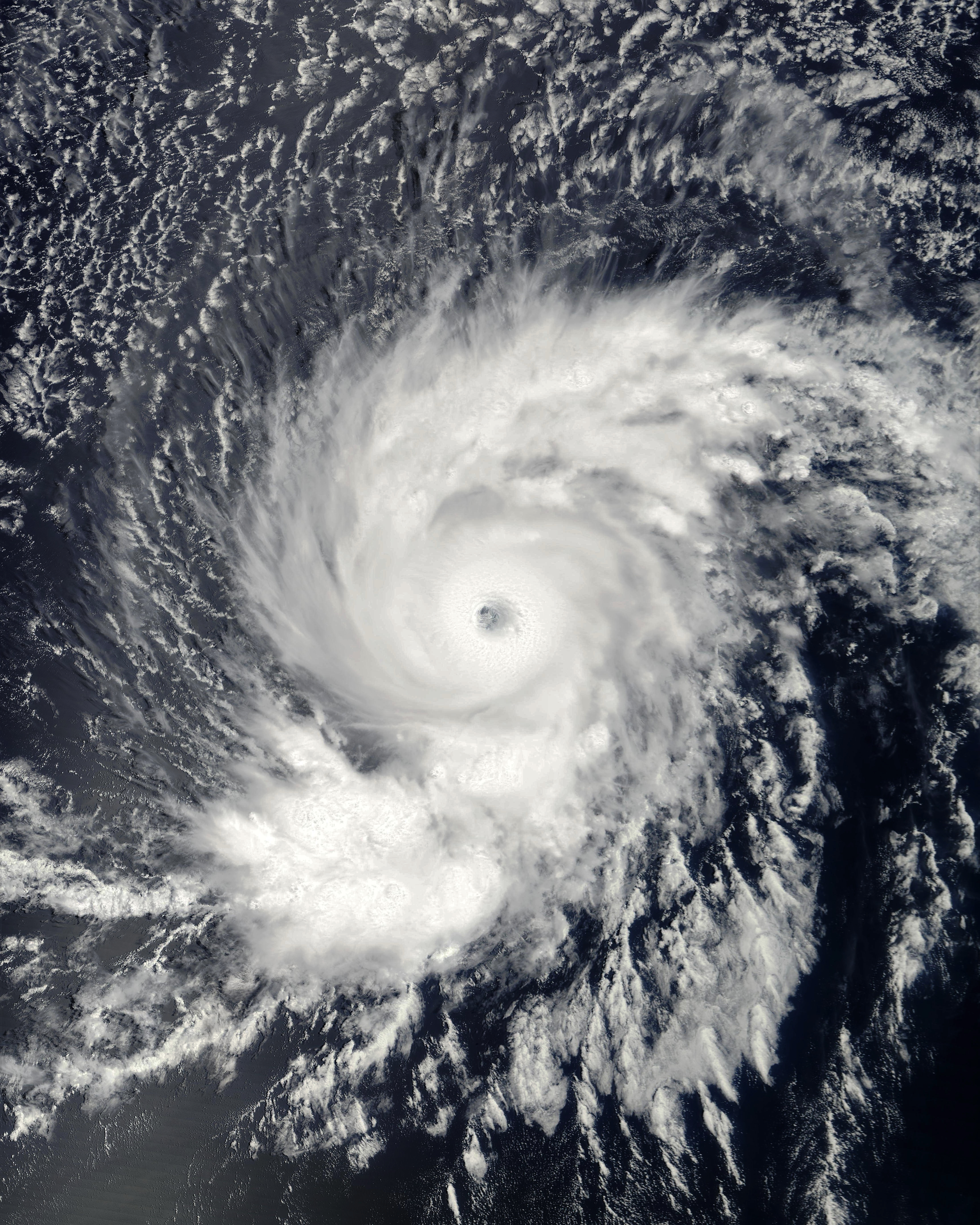 Hurricane Flossie was building in strength as it barreled across the Central Pacific Ocean on August 11, 2007. The storm had winds of 217 kilometers per hour (135 miles per hour or 117 knots) and gusts to 260 km/hr (160 mph or 140 knots) when the Moderate Resolution Imaging Spectroradiometer (MODIS) on NASA’s Terra satellite captured this photo-like image at 20:15 UTC. The Category 4 hurricane had a distinct eye surrounded by spiraling arms of clouds. By August 13, Flossie had quieted slightly, its winds dropping to 110 knots. As of August 13, the Central Pacific Hurricane Center predicted that Flossie would track northwest across the Pacific, its outer fringes possibly skimming the Hawaiian Islands between August 14 and August 16.